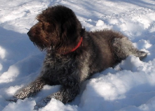 German Stichelhaar-dog, Hiska vom Greifenhagen